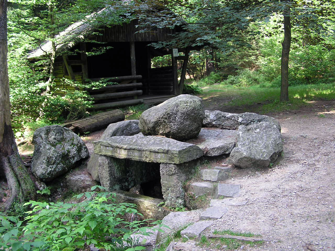 Description: Fichtelnaabquelle Source: Selbst fotografiert Date: 18. August 2005 Author: Schubbay